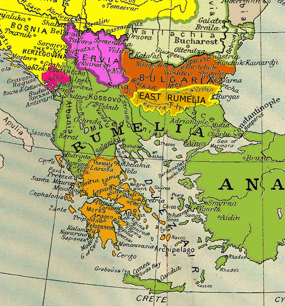 Map of Balkans 1878-1885 with East Rumelia